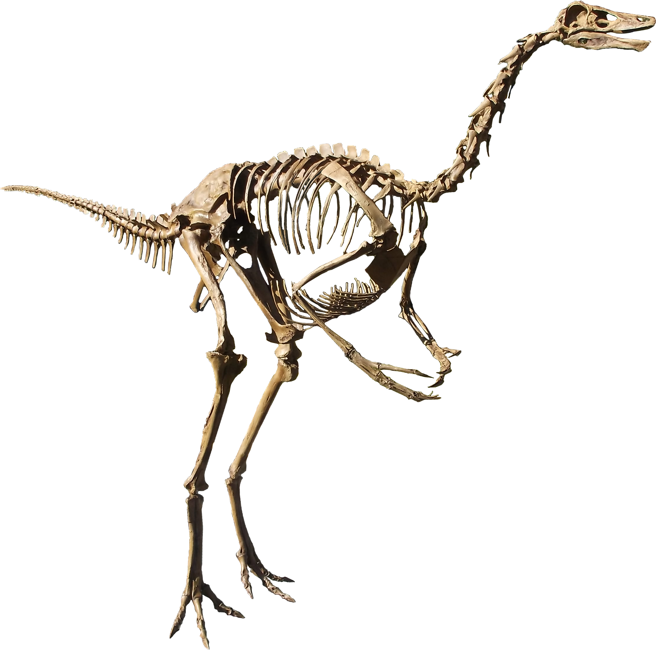 Struthiomimus altus complete reconstruction in the Rocky Mountain Dinosaur Resource Center, Woodland Park, Colorado